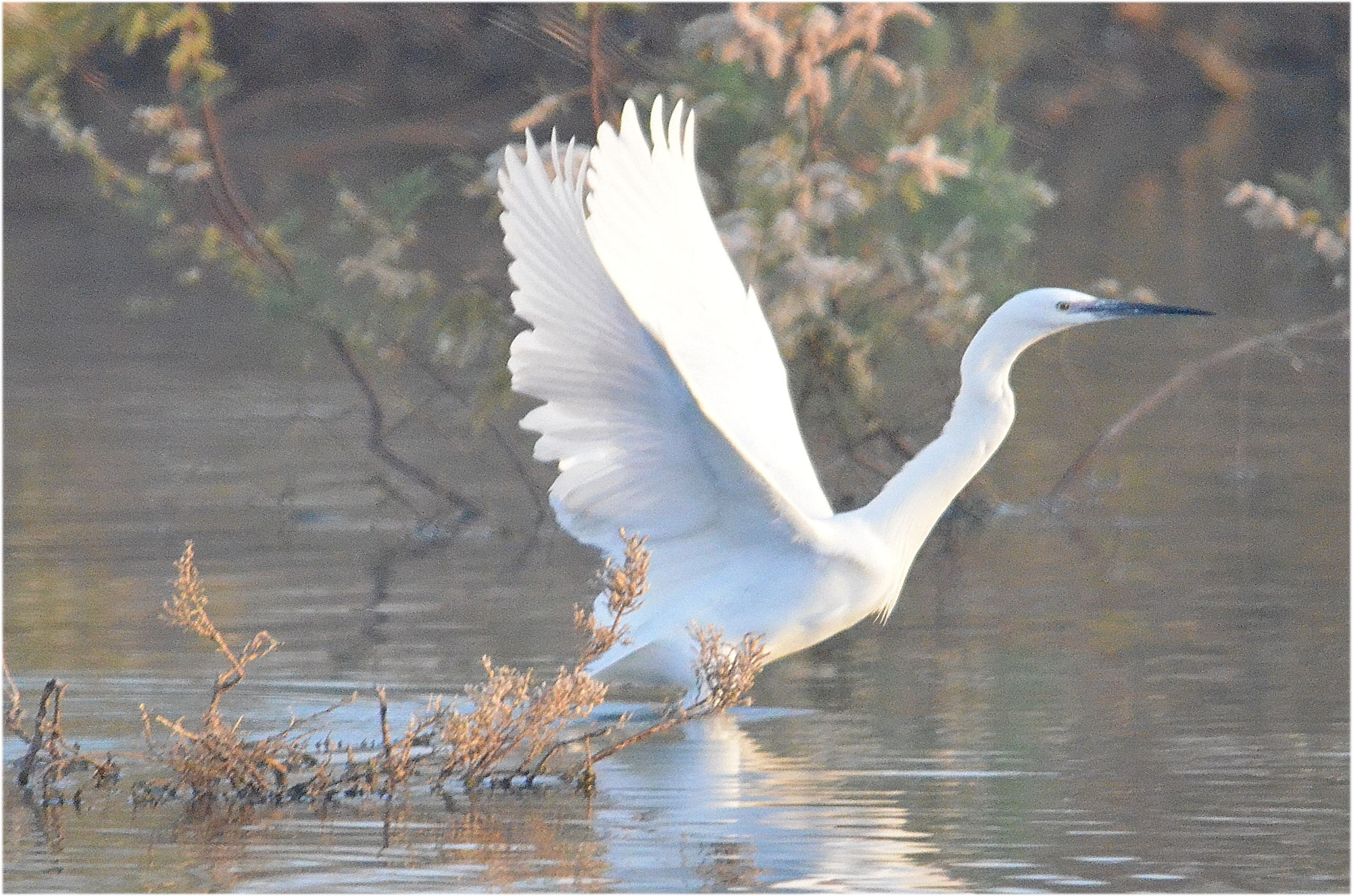 Little Egret